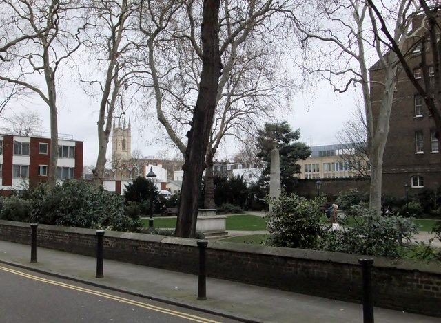 Dovehouse Green, Dovehouse Street, London SW3, UK